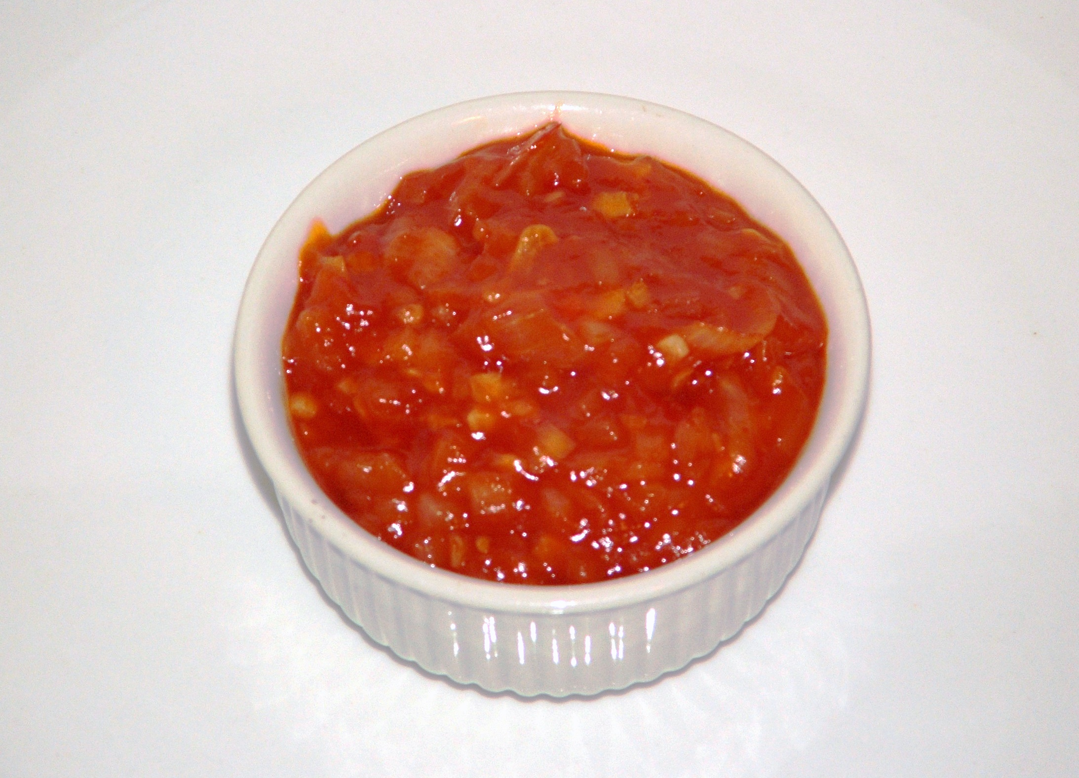 Babi panggang sauce (prepared per the recipe at Wikibooks Cookbook